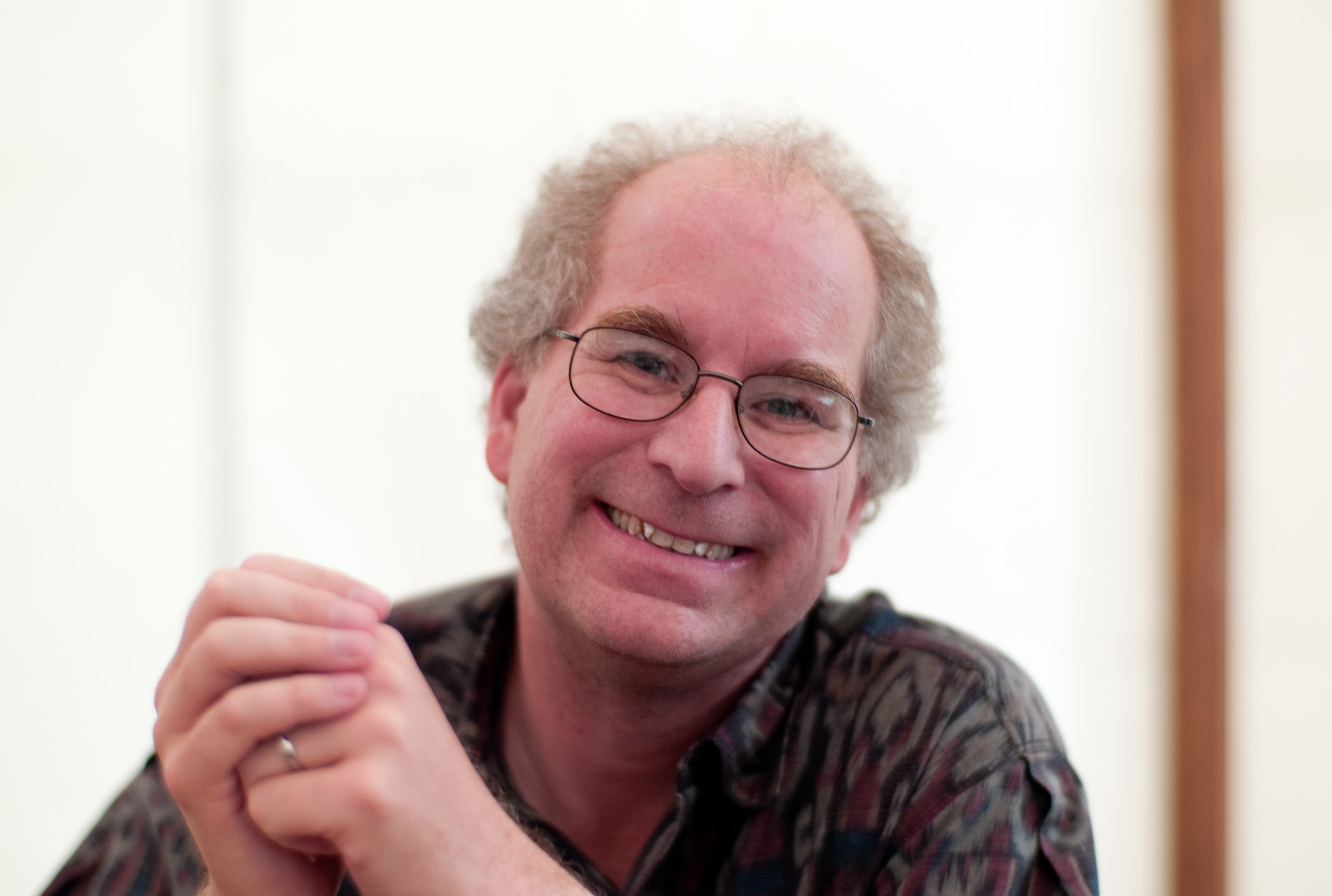 Brewster Kahle at Foo Camp 2009